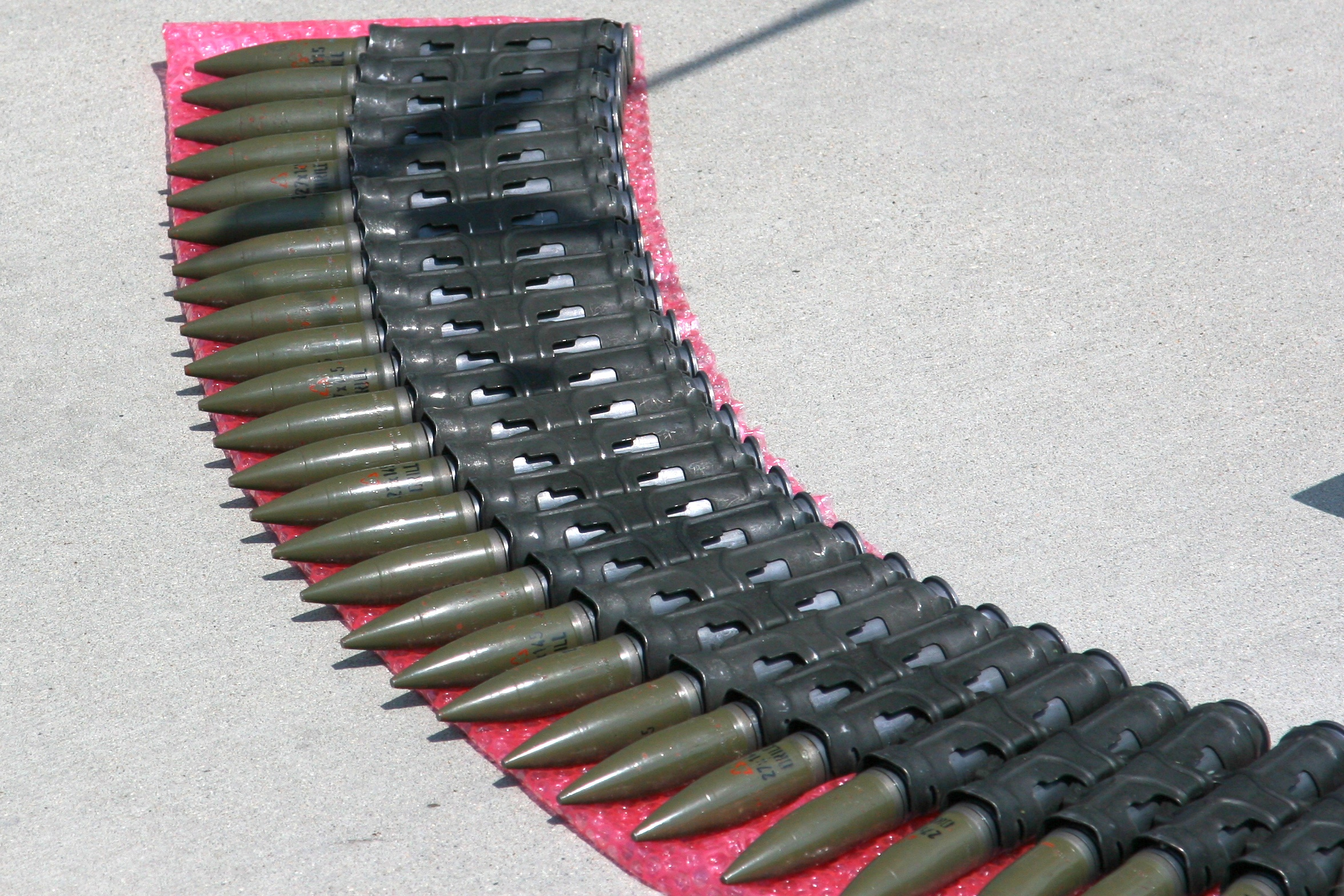 A ammunition belt of 27×145 drill rounds for Mauser BK-27 aircraft autocannon. Taken during Open Day 2009 at AFB Čáslav (LKCV), the Czech Republic.